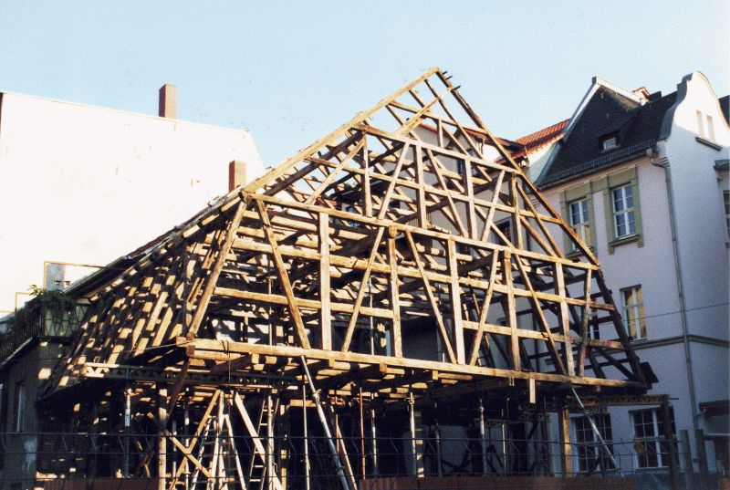 Timber framing in Jena